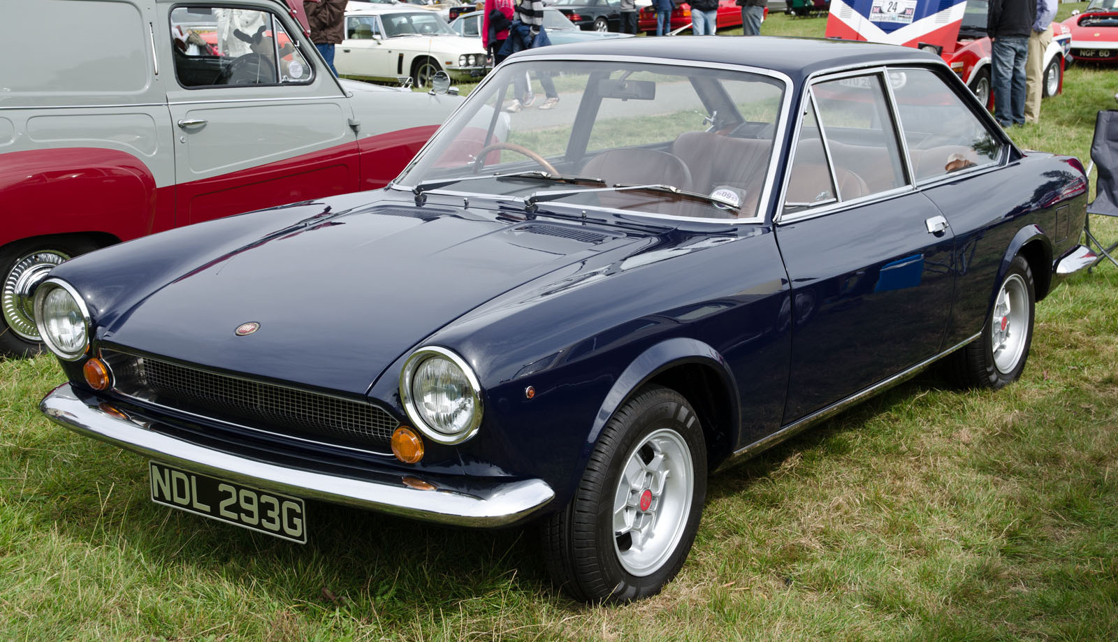 Cholmondeley Classic Car Show 01/09/2013